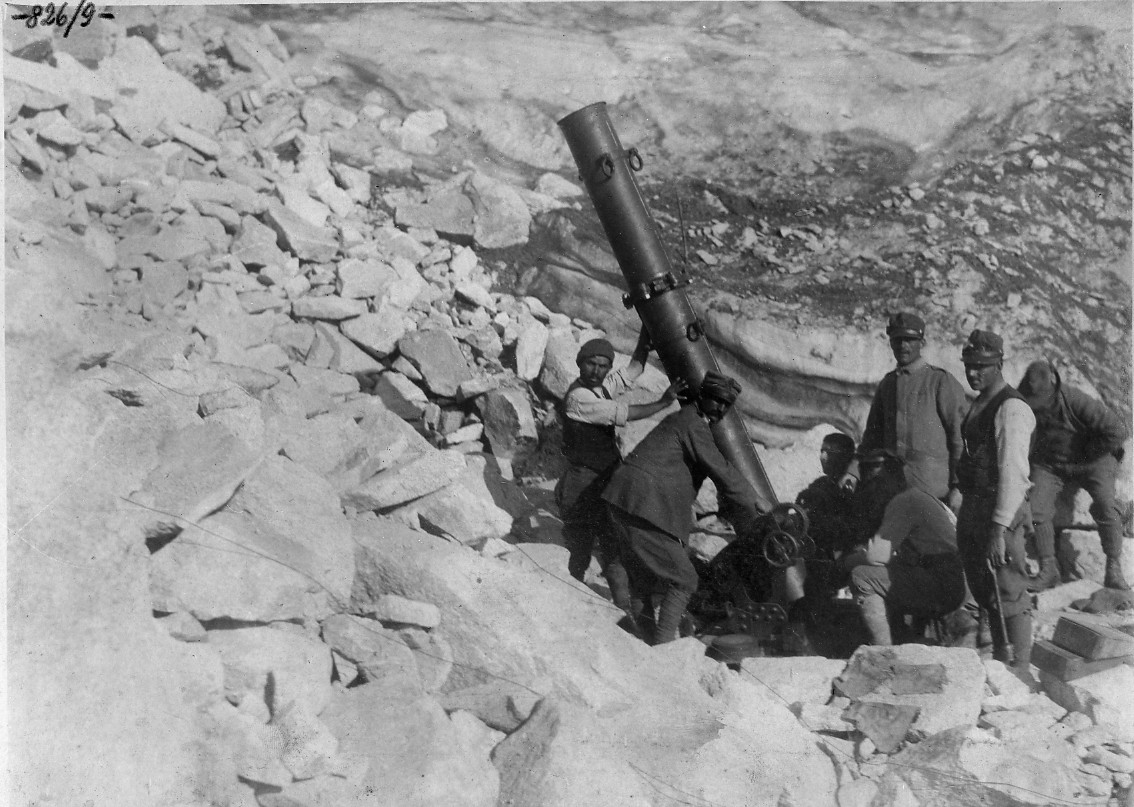 World War 1 - Italian Army: Adamello Glacier a 240mm trench mortar model L position